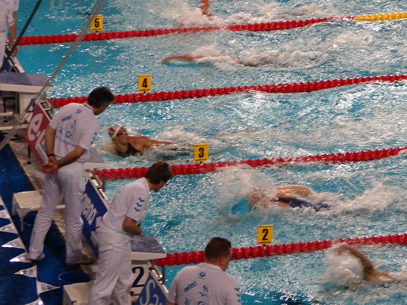 Alain Bernard (France, lane 4), sets world record 100m freestyle: 47.50s